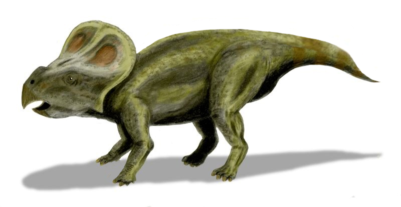 Protoceratops andrewsi, a ceratopsian from the Late Cretaceous of Mongolia, pencil drawing, digital coloring